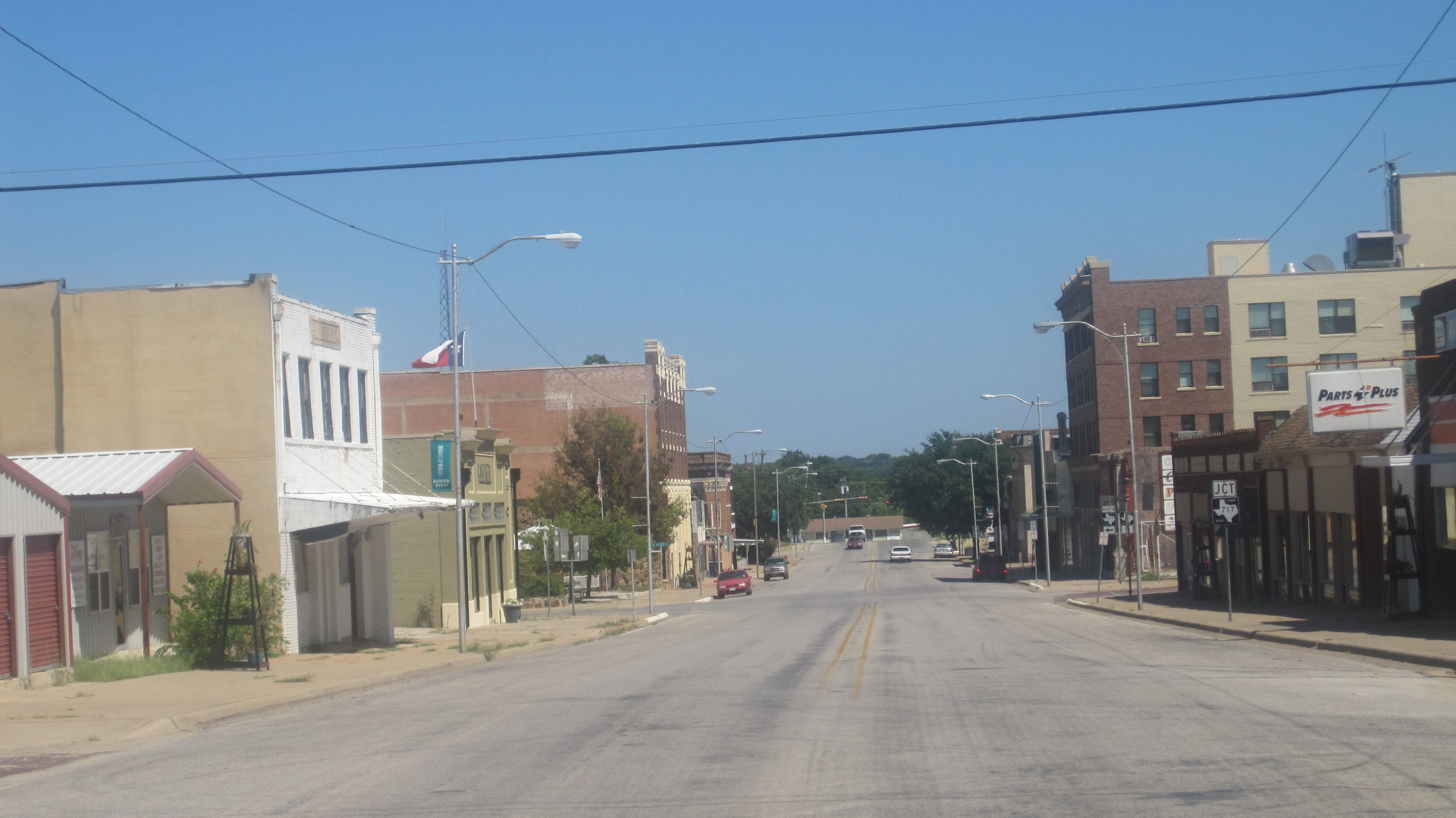 Downtown Ranger, TX.